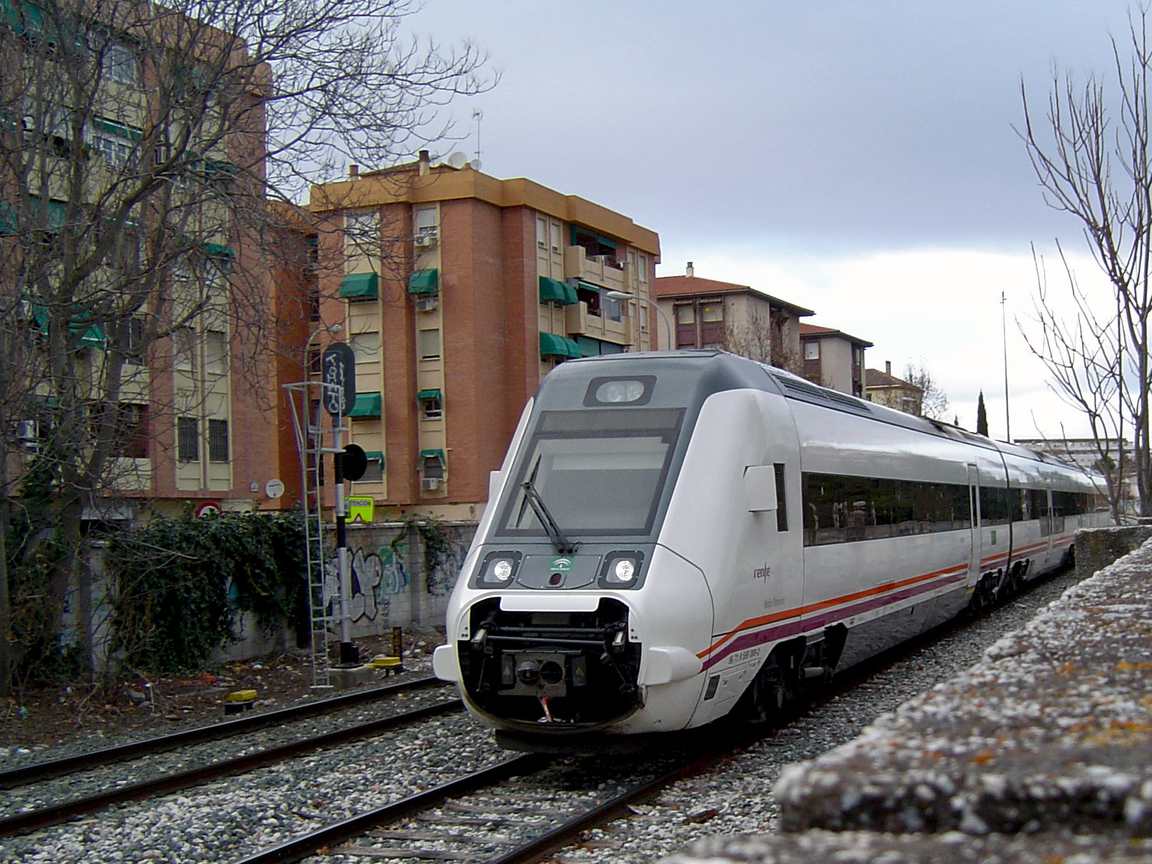 A class 599 in the line between the depot a the station in Granada (Spain). Left line is the Granada-Moreda one. The 599 will make a Granada-Algeciras service.